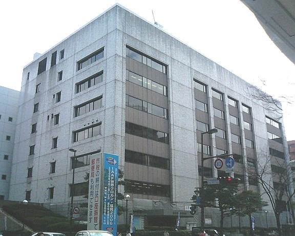 Chuo Ward Office in Fukuoka City, Fukuoka Prefecture, Japan